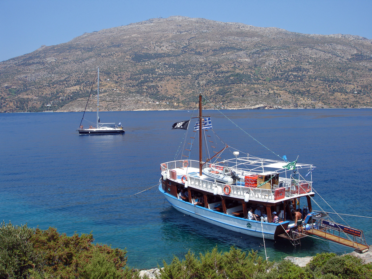 Visitors arrive at Katsakas bay on Samiopoula; mount Bournias of Samos island in the background. Image by Nikolaos Angelis